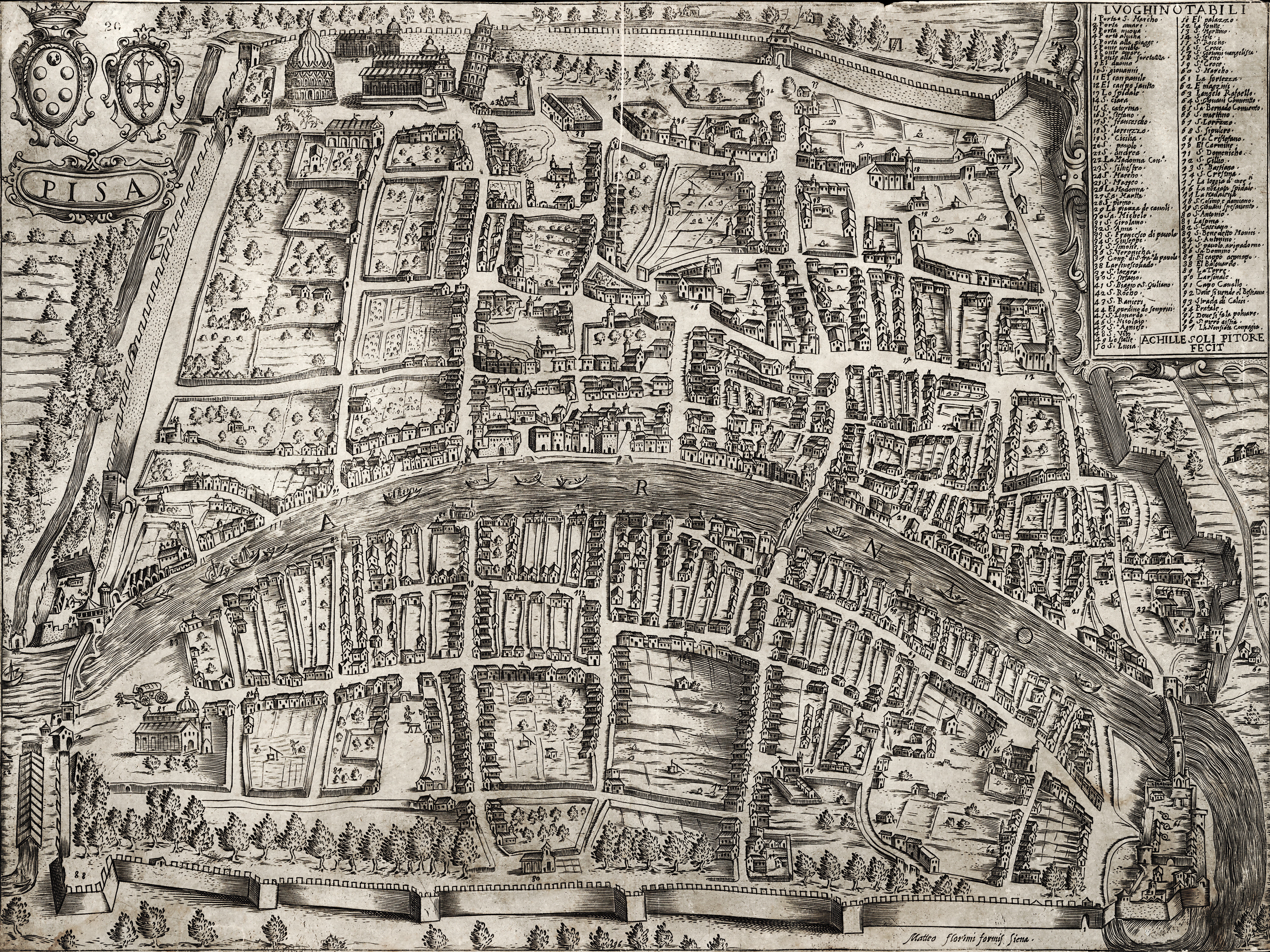 Pisa, bird's eye view, etching. 39.7 x 52.7 cm